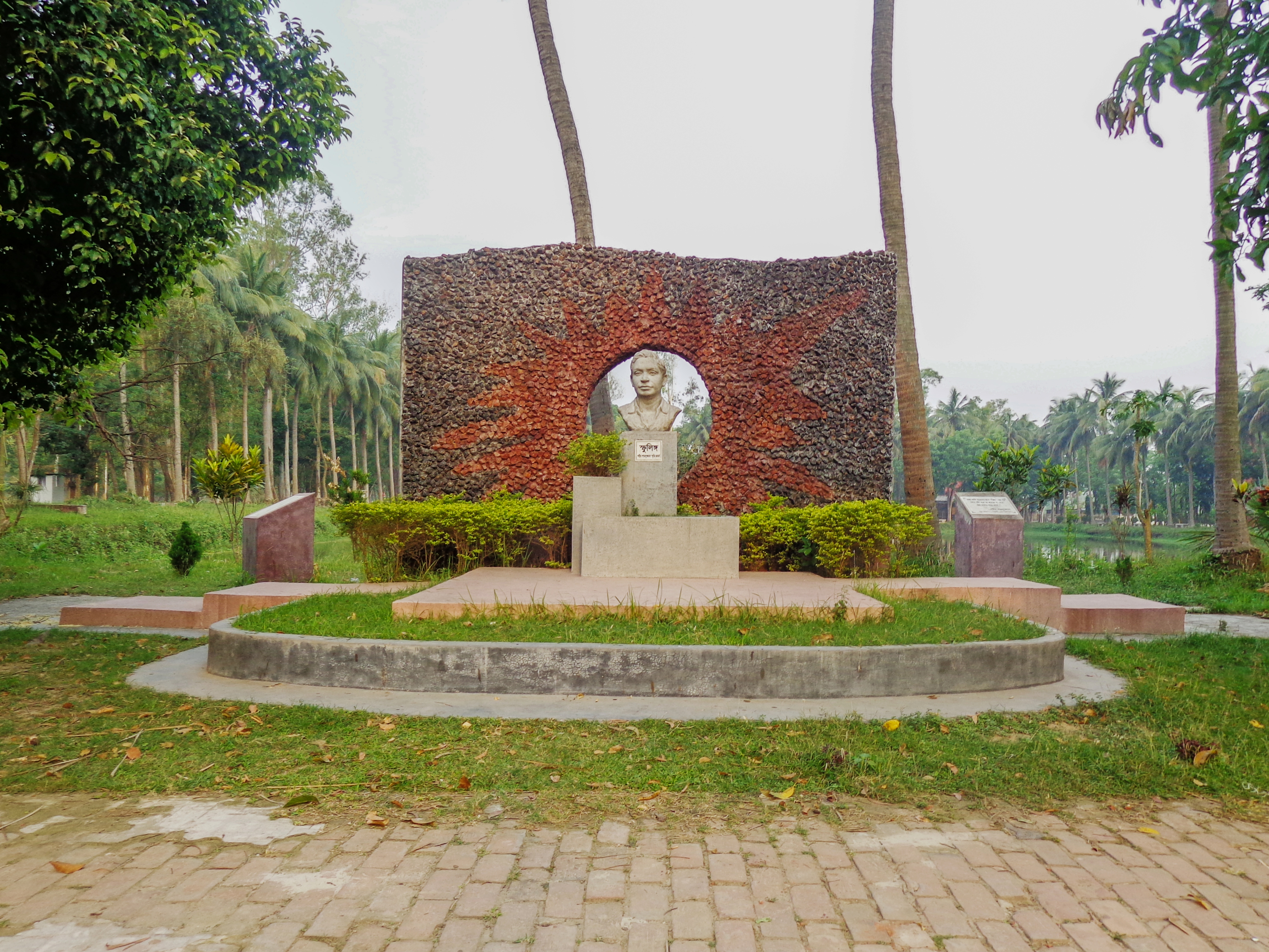 Martyr Shamsuzzoha Memorial Sculpture, aks Isfulingo, at Rajshahi University. This monument is made to remind memory of Mohammad Shamsuzzoha, who was a Bengali educator, professor and proctor at Rajshahi University.